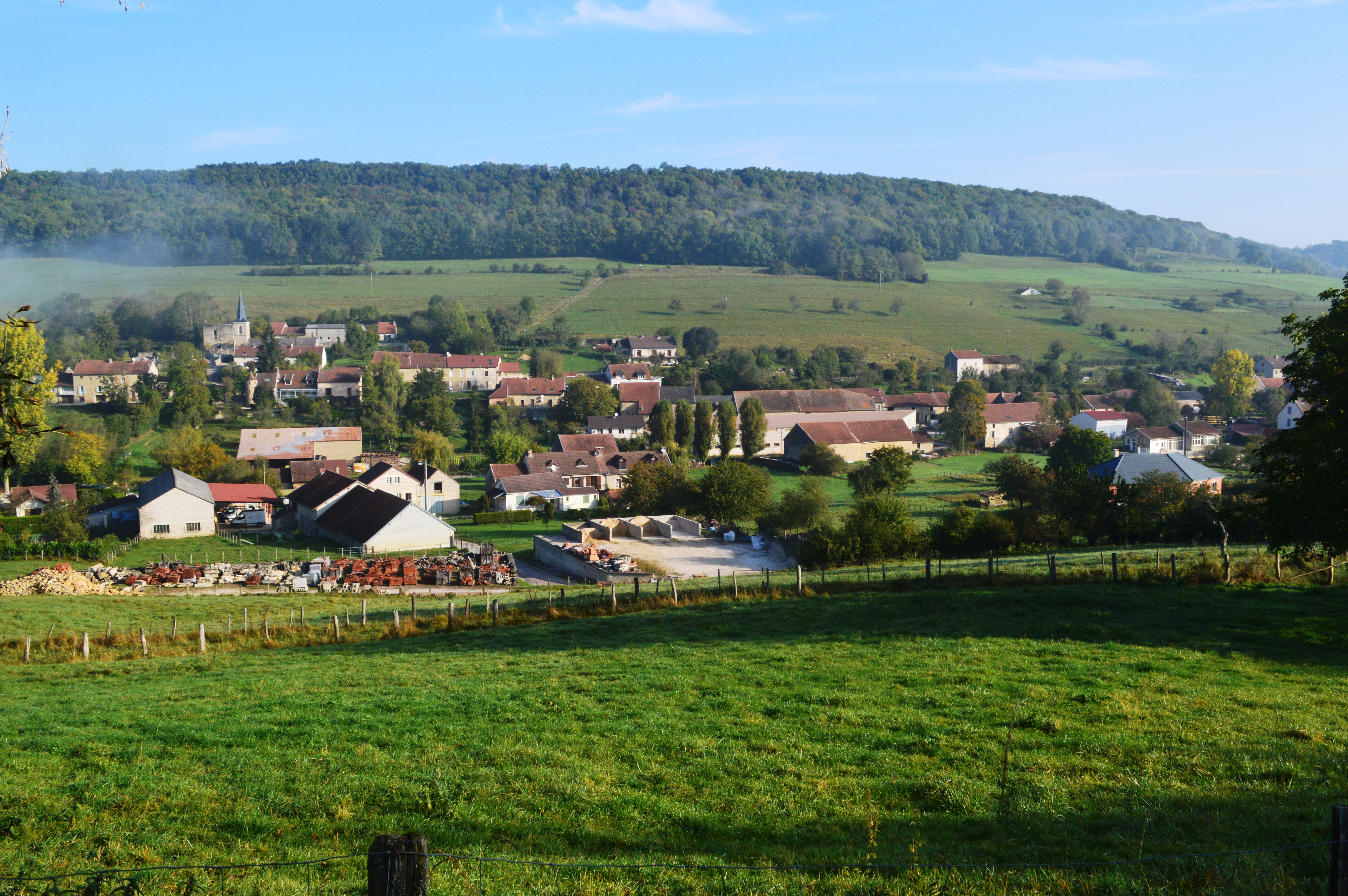 Aubigny-lès-Sombernon Landscape